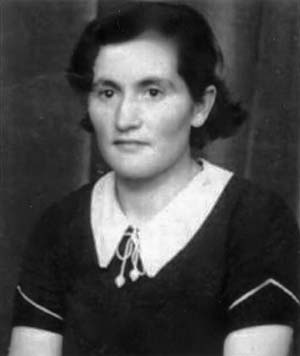 Augustine Le May (1915-2001), Righteous among the Nations